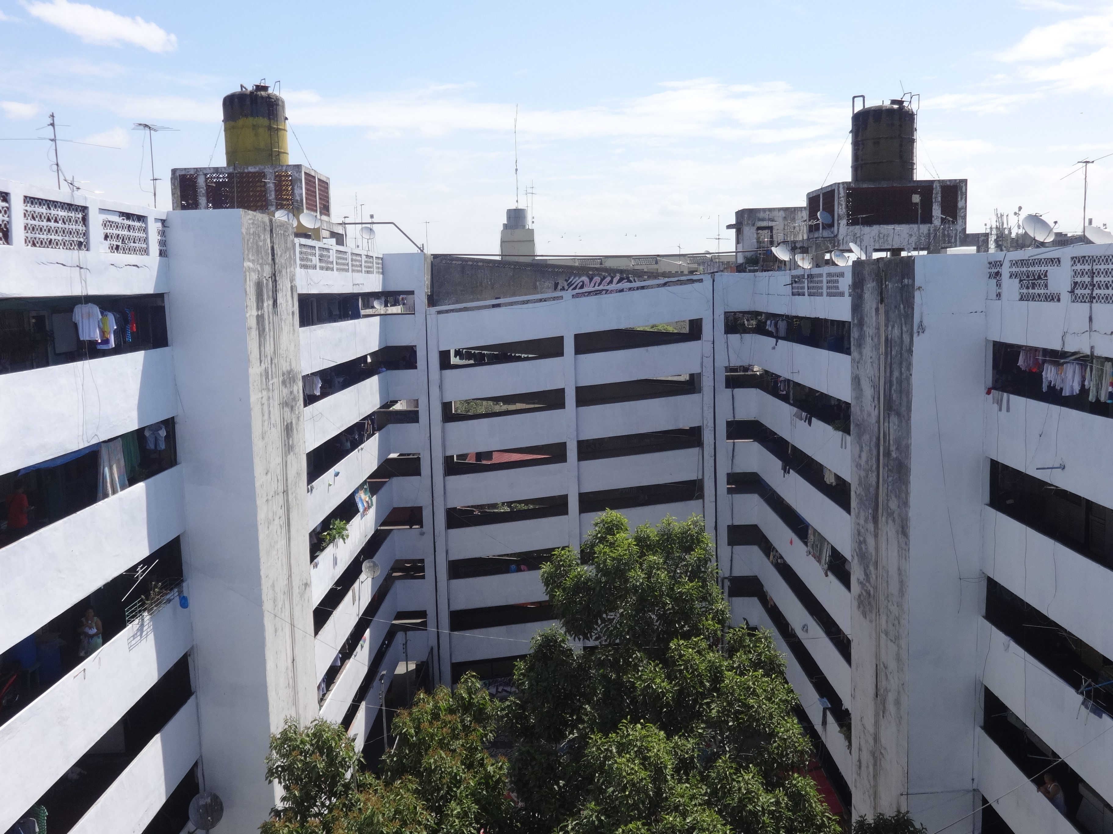 FTI Tenement in Bicutan, Taguig City